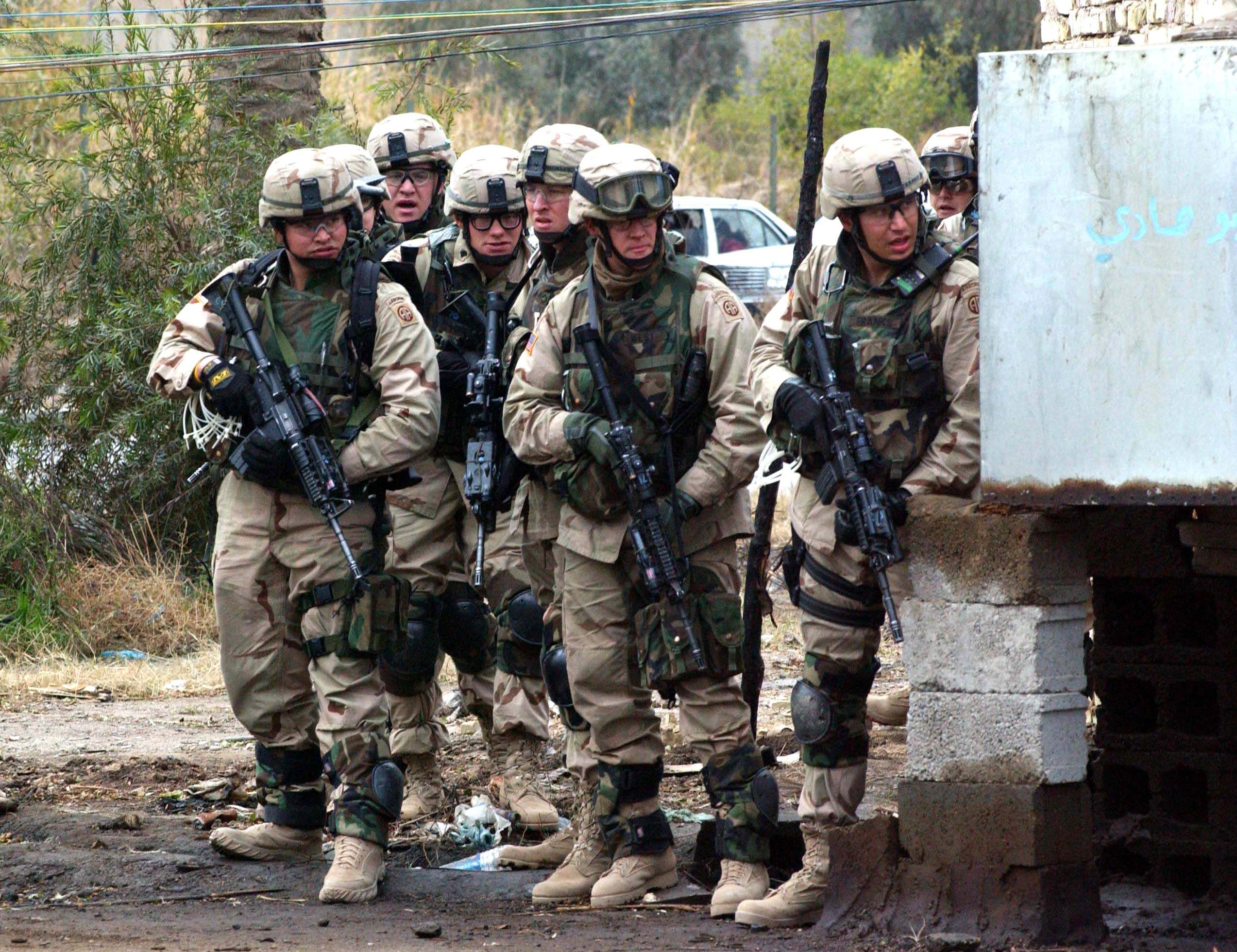 A photo showing members of the 325th Airborne Infantry Regiment, 82nd Airborne Dvision waiting to dash across a street in Baghdad, Iraq, as part of their mission there searching for suspected militants.